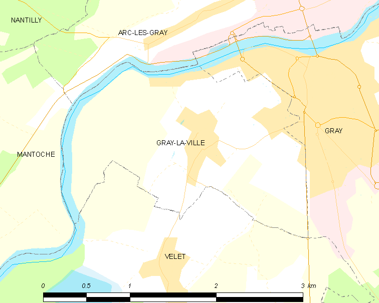 Map of French municipality